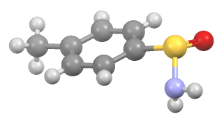 structure of p-tolylsulfinamide (tolS(O)NH2)). Eccles, K. S.; Morrison, R. E.; Daly, C. A.; O'Mahony, G. E.; Maguire, A. R.; Lawrence, S. E., Co-crystallisation through halogen bonding with racemic or enantiopure sulfinamides. CrystEngComm 2013, 15, 7571-7575. doi 10.1039/C3CE40932E